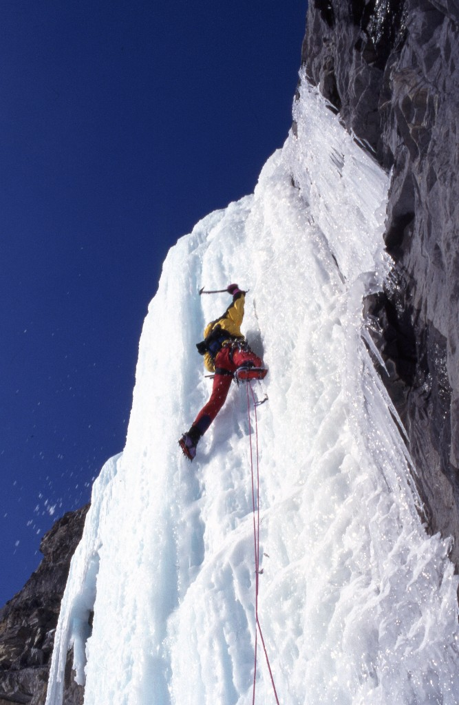 Canadian Rockies - Oh le tabernacle